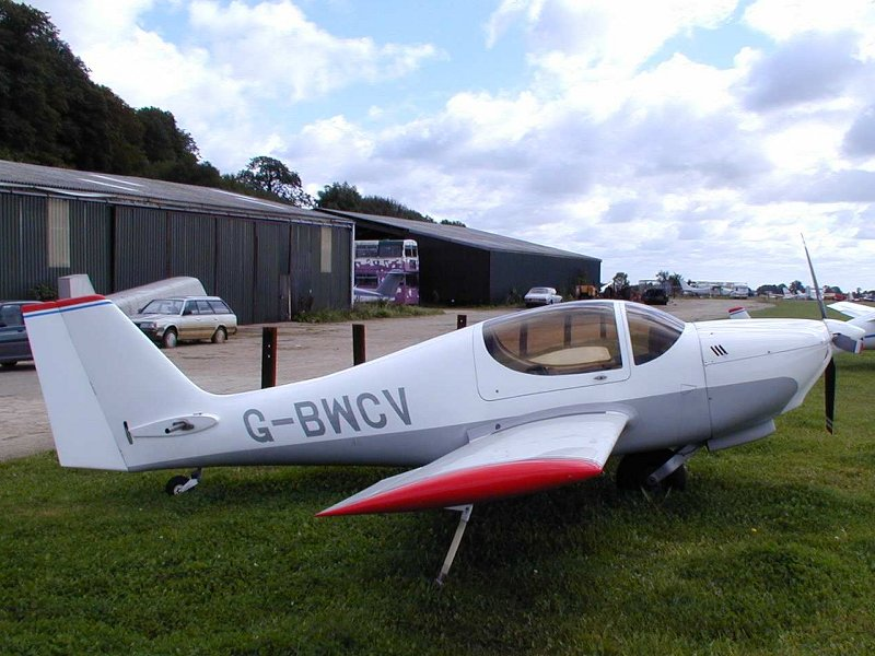 Europa Classic taken at Enstone airfield